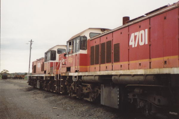 4701 and 4703 at broadmeadow loco circa 1990